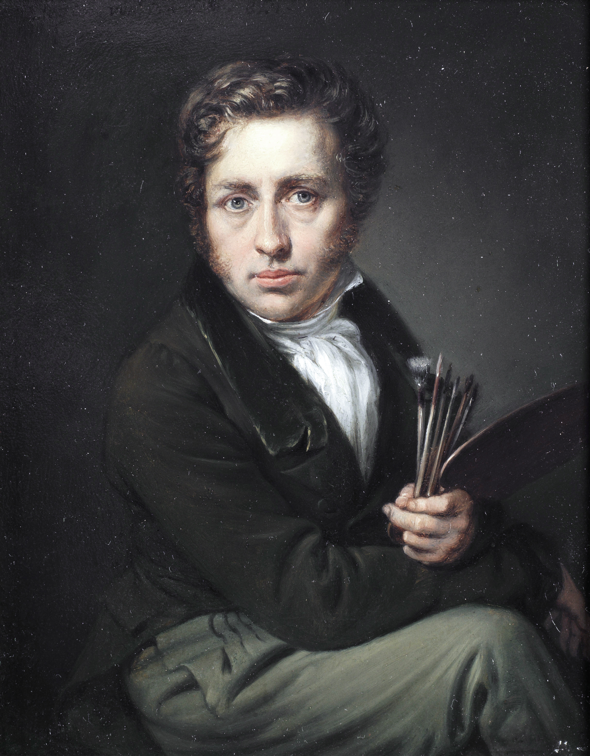 Johann Christian Ziegler inscribed u.l.: 'Ziegler. Von ** ge* 824' inscribed verso: '** Freund/Waldmuller182*' oil on copper 18.5 x 14.7 cm